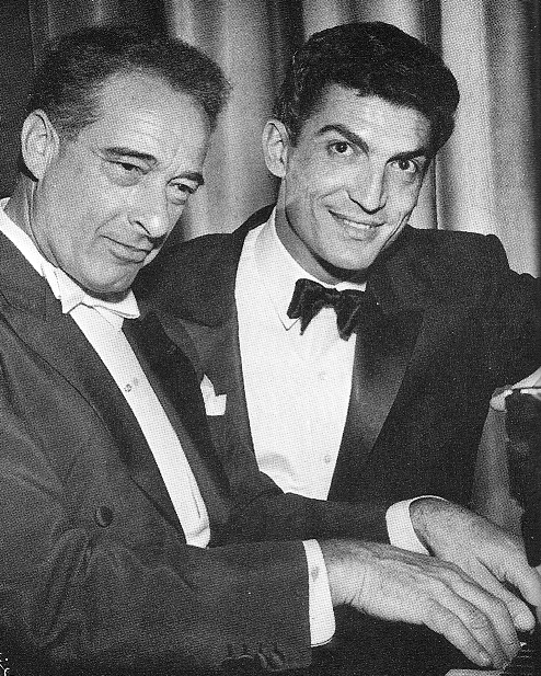 Sergio Franchi with Victor Borge at Carnegie Hall